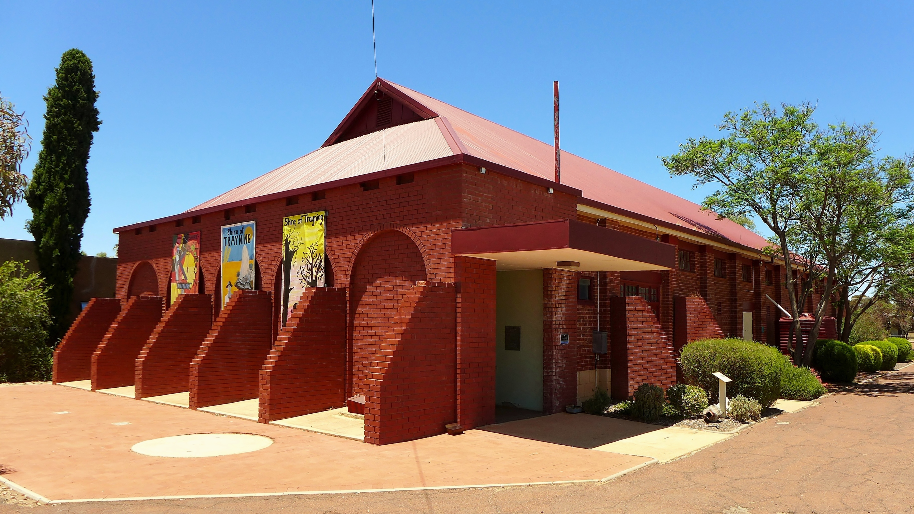 View of the Trayning Town Hall, Railway Street, Trayning, Western Australia. In the background are (L-R) the Trayning Hotel and the Don Mason Community Centre.